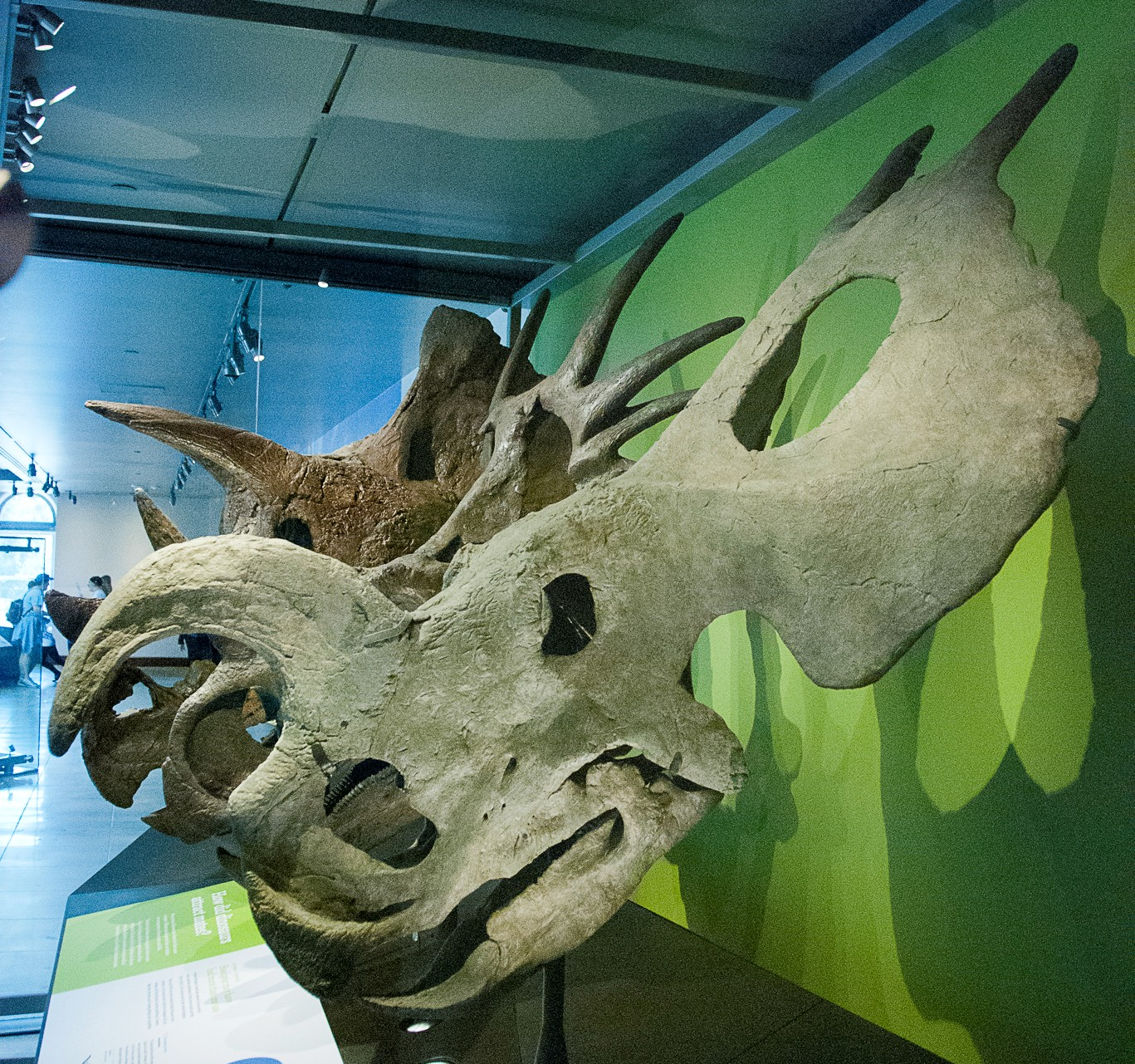 Los Angeles Natural History Museum Dinosaur Hall